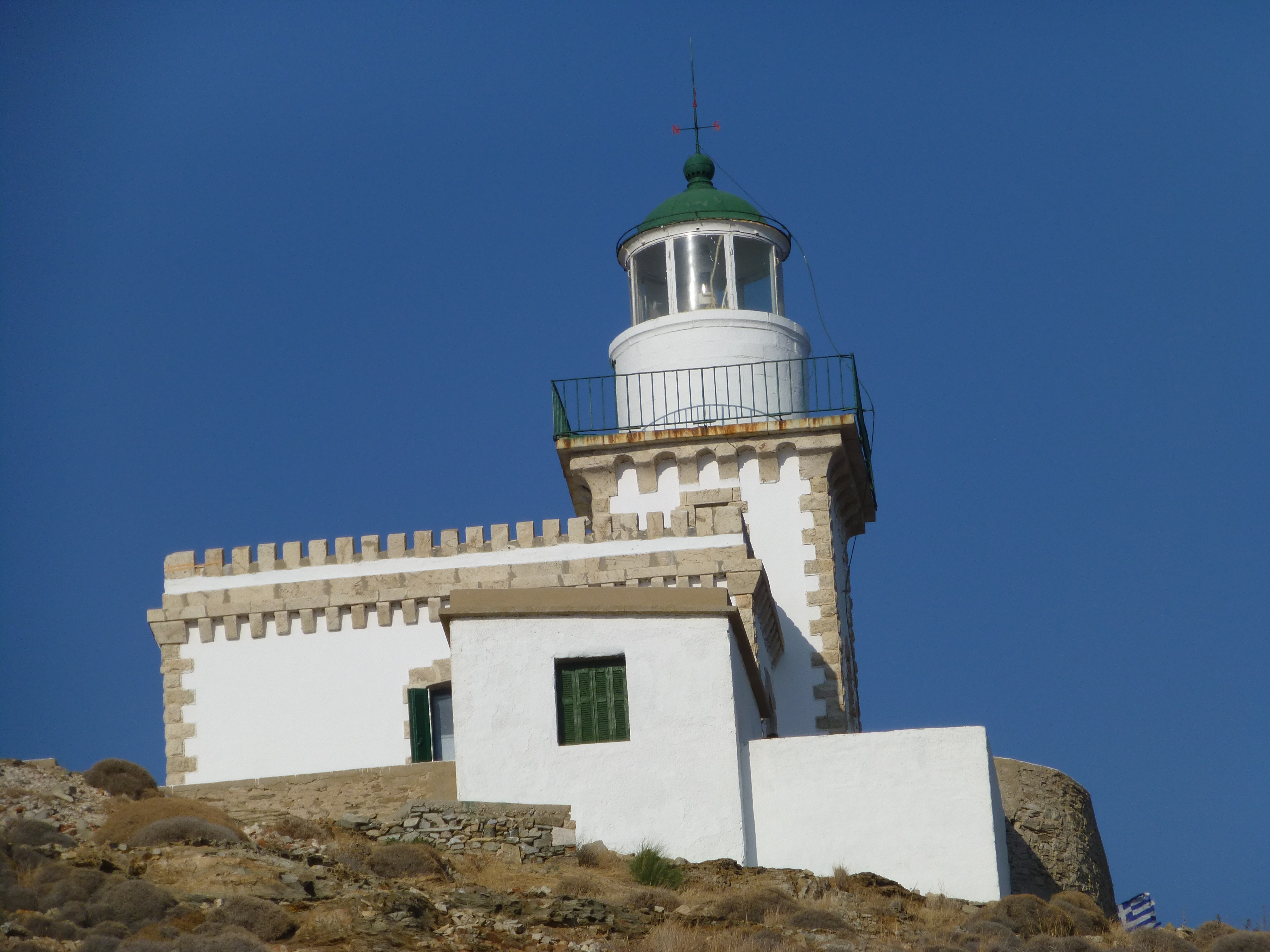 Serifos' lighthouse - le phare de Sérifos